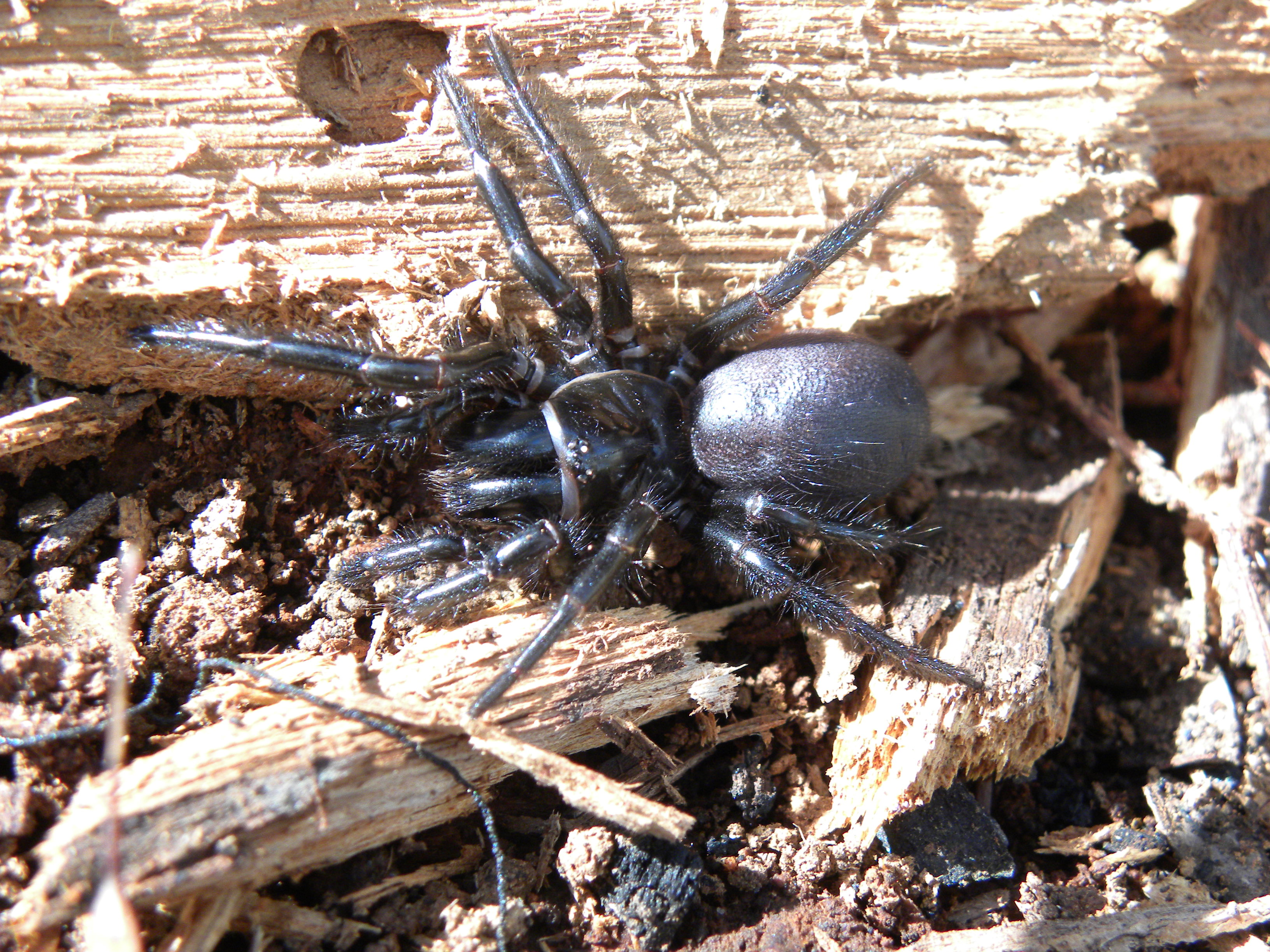 Southern tree funnelweb (Hadronyche cerberea)